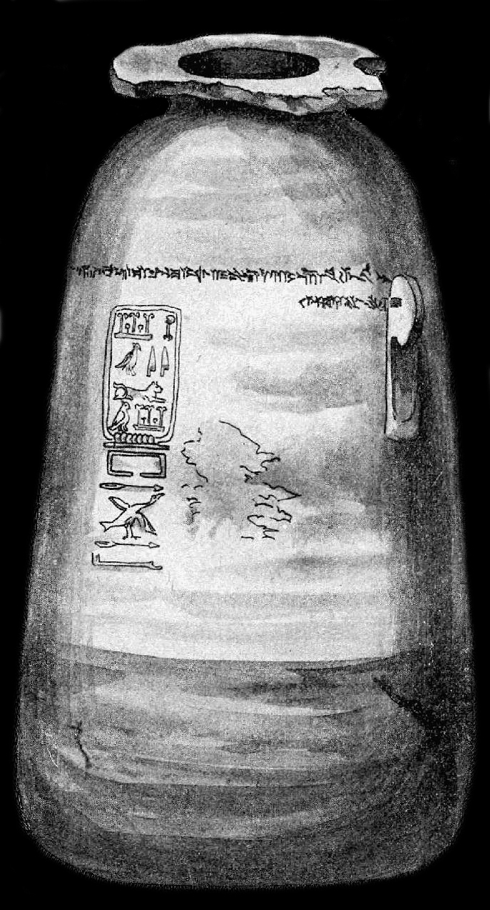 Caylus vase 1905